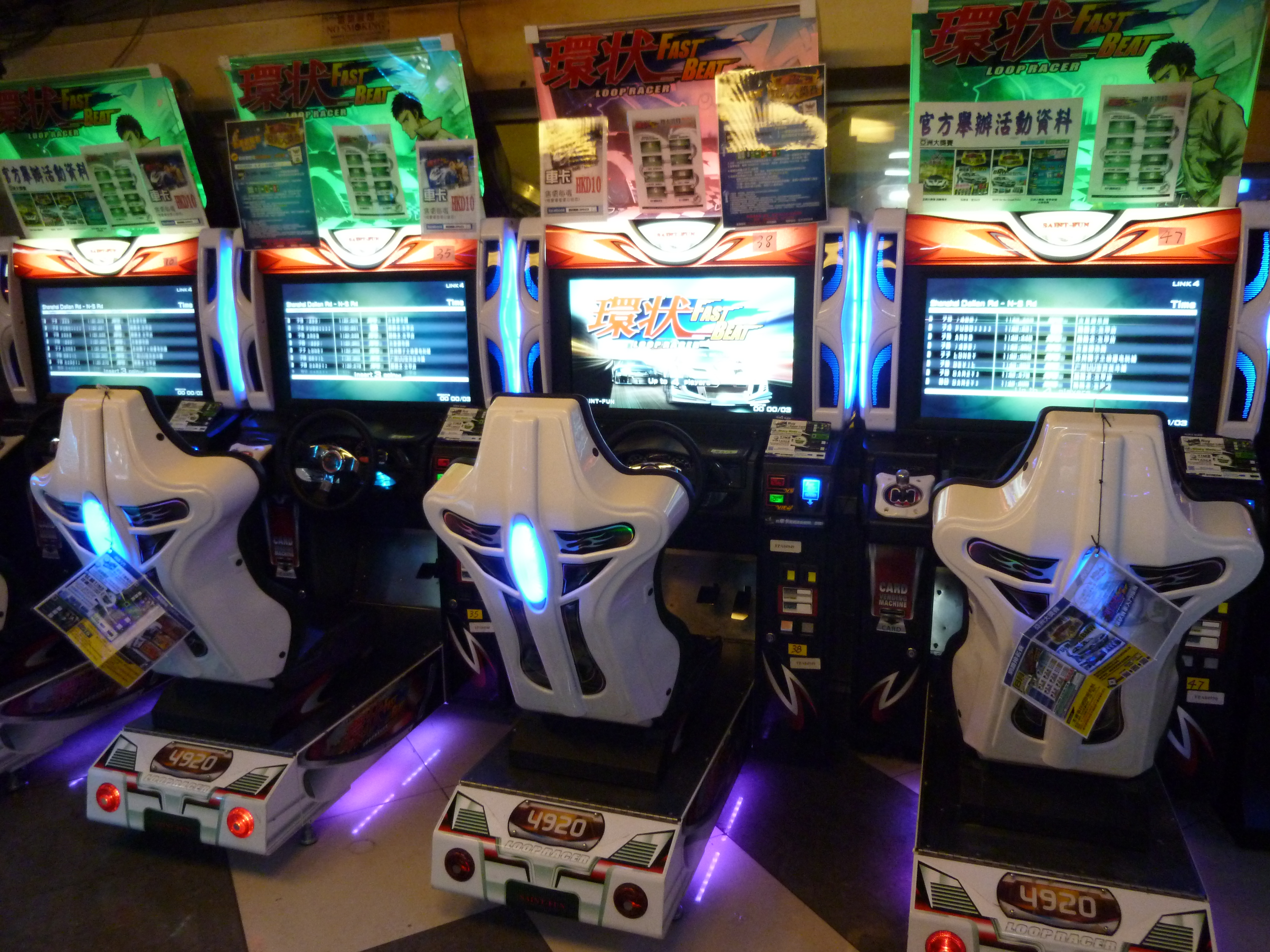 Fast Beat Loop Racer cabinet中文（香港）: 環狀賽車 機體